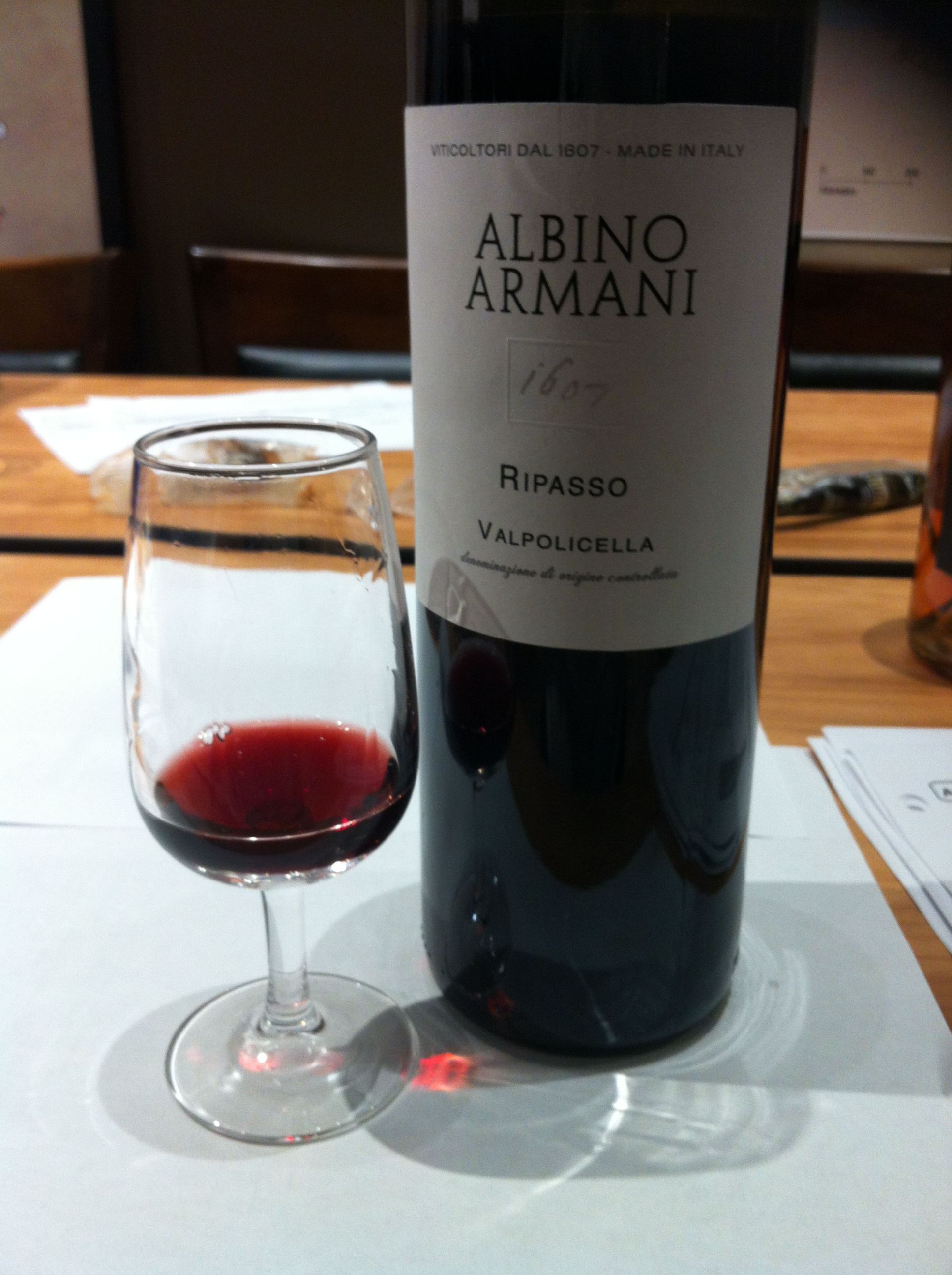 Italian red wine from the Valpolicealla region of the Veneto made in the ripasso style